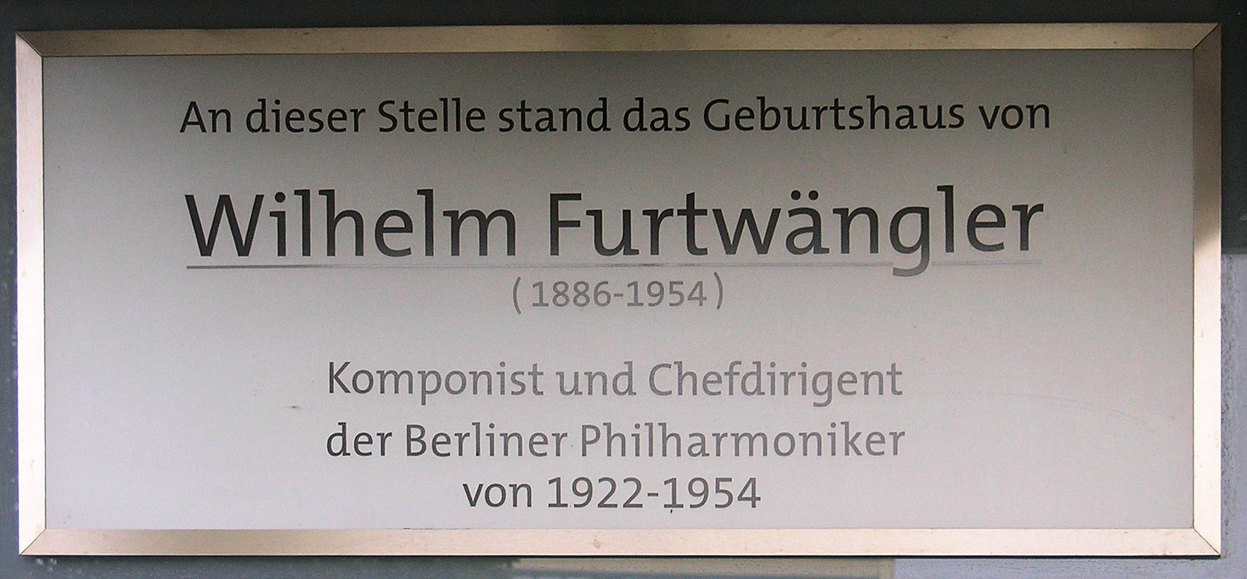 Memorial plaque, Wilhelm Furtwängler, Nollendorfplatz 8, Berlin-Schöneberg, Germany Koordinate:52°29′56″N 13°21′16″E / 52.49889°N 13.35444°E